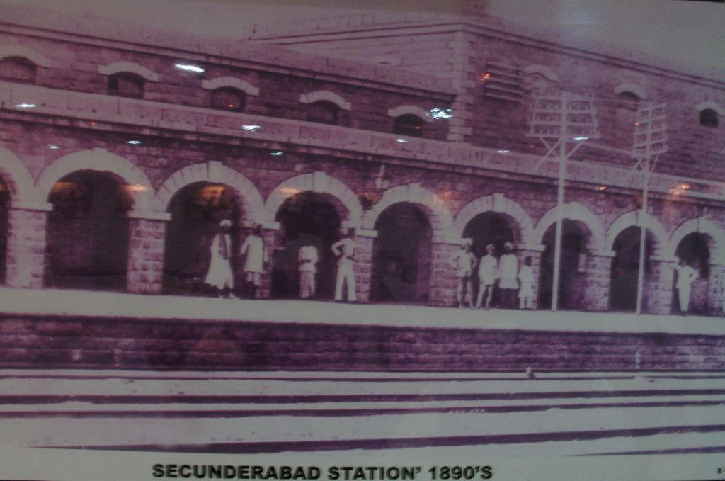 The Secunderabad Railway Station in 1890